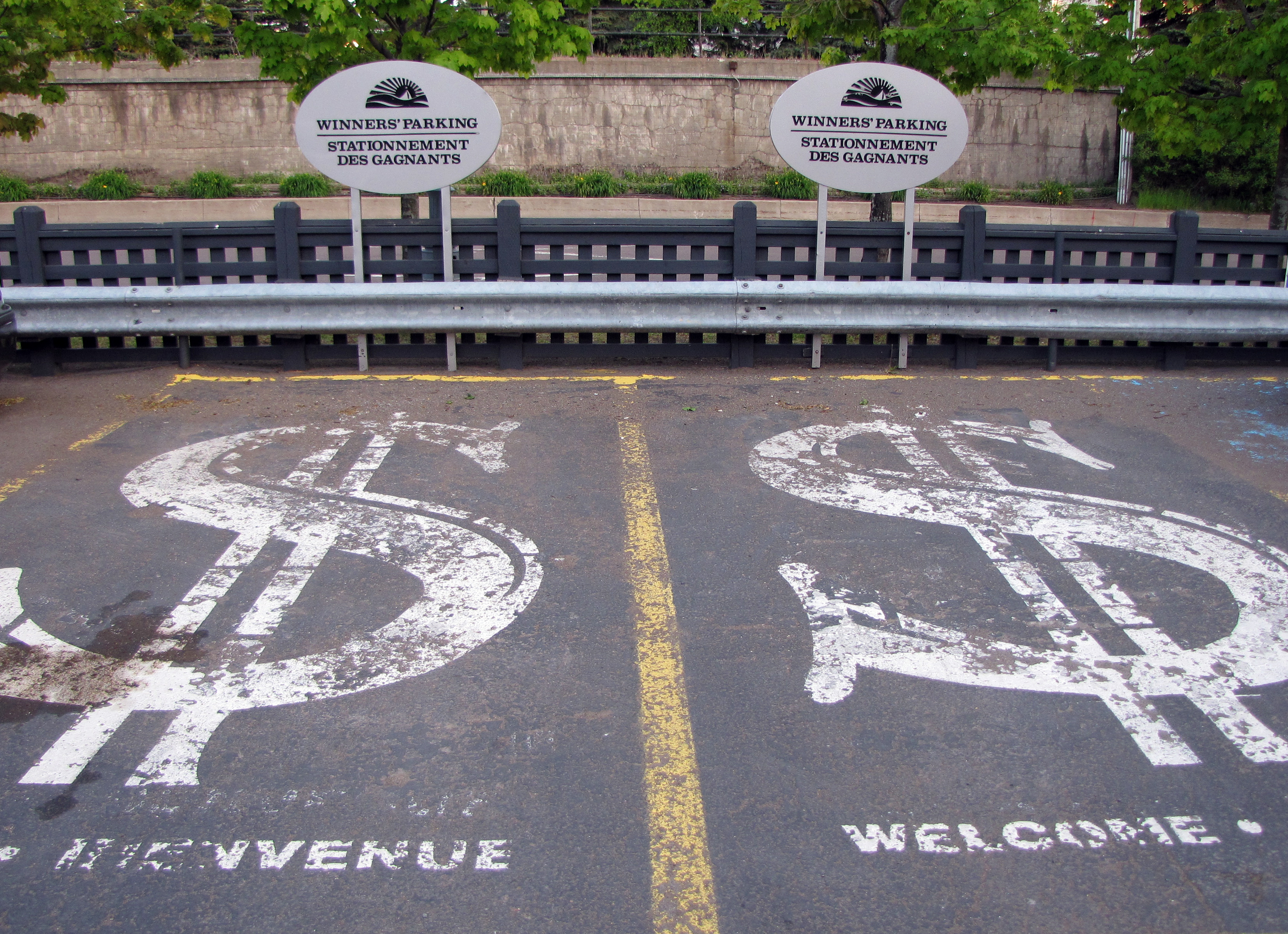 The winners parking spots at the Atlantic Lottery Corporation Headquarters in Moncton, New Brunswick